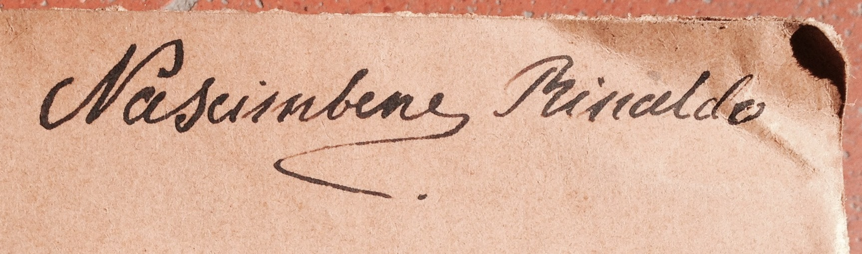 Signature of Rinaldo Nascimbene